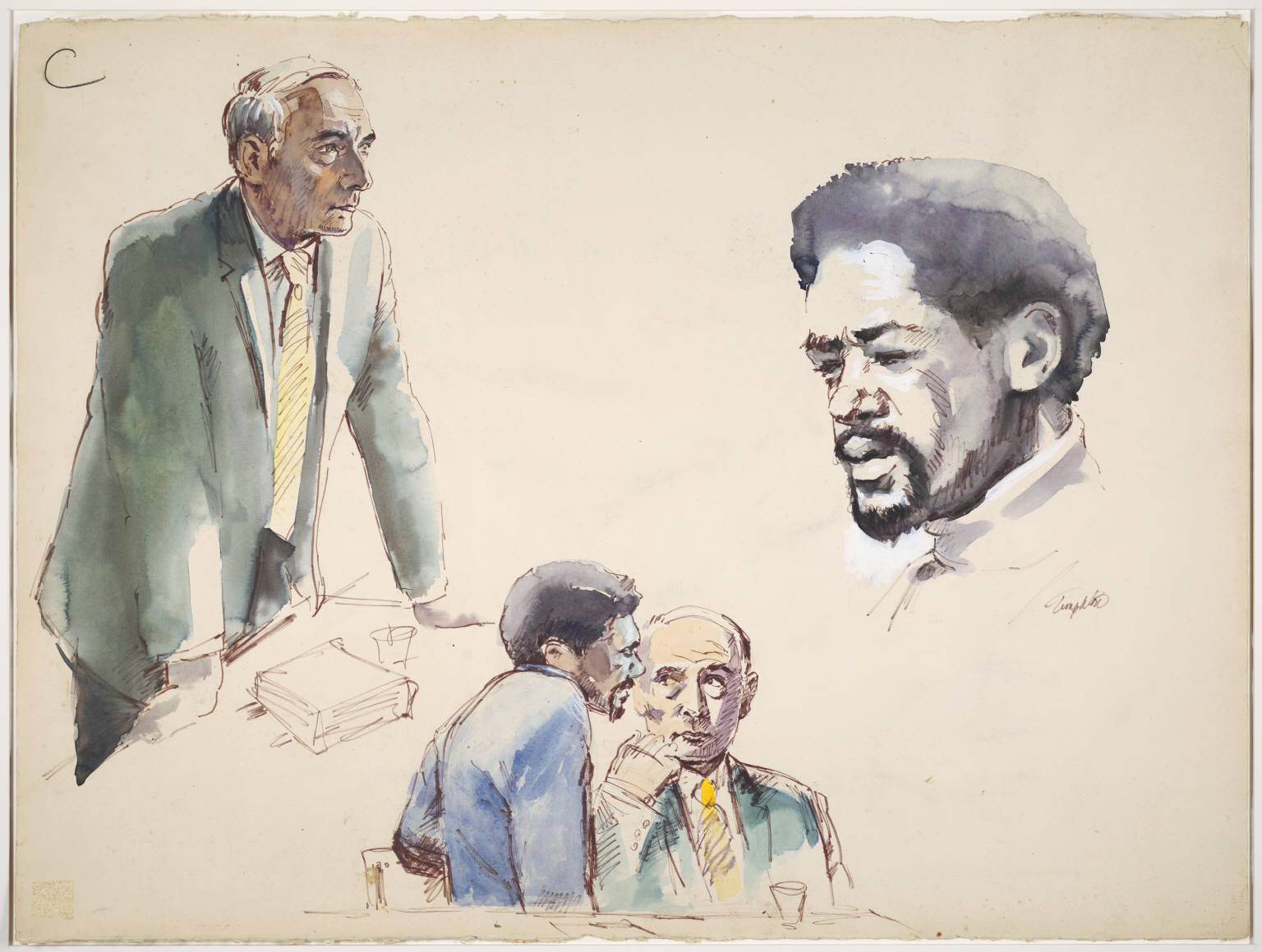 Author/Creator: Date: 1971. Part of: Robert Templeton Drawings and sketches related to the trial of Bobby Seale and Ericka Huggins, New Haven, Connecticut. Physical Description: 1 drawing color ill., ink, watercolor 56.5 x 75.8 cm. Folder or box number: Box 8 Subjects: Garry, Charles R., 1909- Seale, Bobby, 1936- Black Panther Party. African American political activists. African Americans. Black militant organizations. Black power. Political activists. Trials (Conspiracy) Trials (Kidnapping) Trials (Murder) Connecticut. Superior Court (New Haven County) Genre/Form: Drawings Portraits Watercolors (Paintings) Cite as: Yale Collection of American Literature, Beinecke Rare Book and Manuscript Library Repository: Beinecke Rare Book & Manuscript Library, Yale University Bibliographic Record Number: 2029952 Call Number: JWJ MSS 33 View our Record: Permalink Flickr data on 2011-08-26: License: CC BY-SA 2.0 User: Beinecke Library